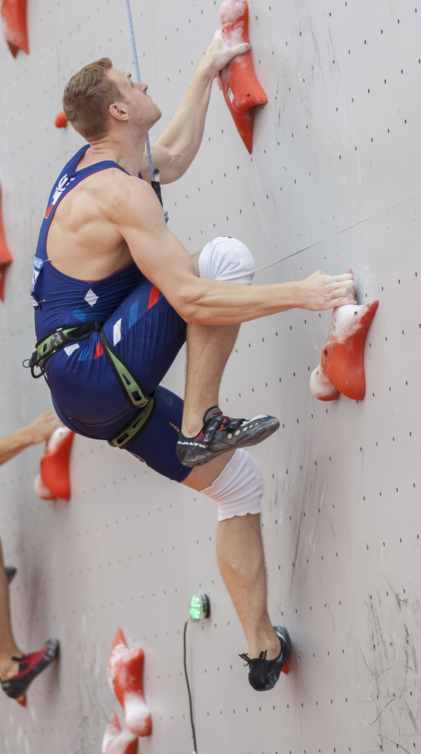 Jan Kriz at Shanghai 2016